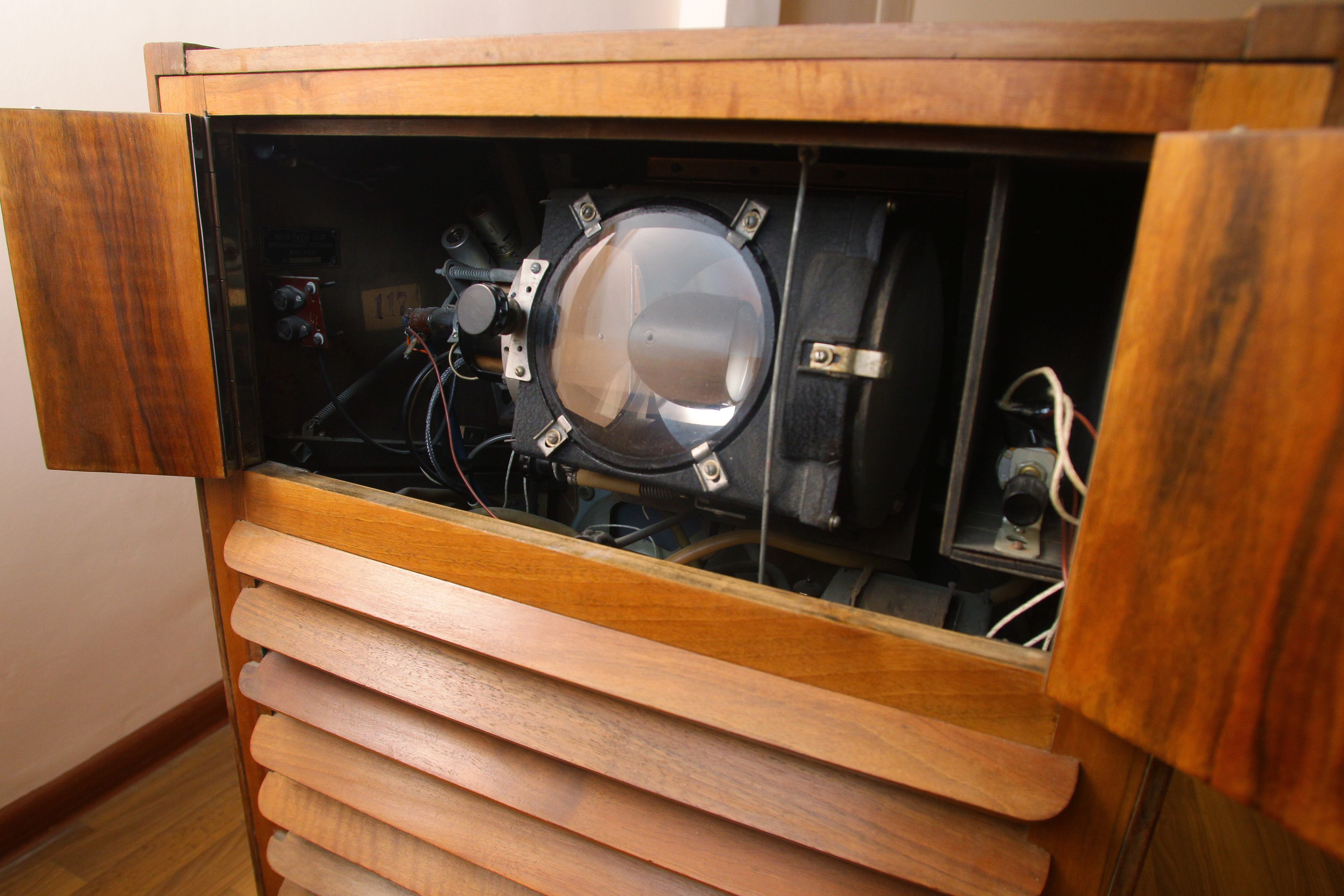 Soviet b&w front projection TV-set "Москва" (Moscow), 1957-1963. In total, 2125 units were made.